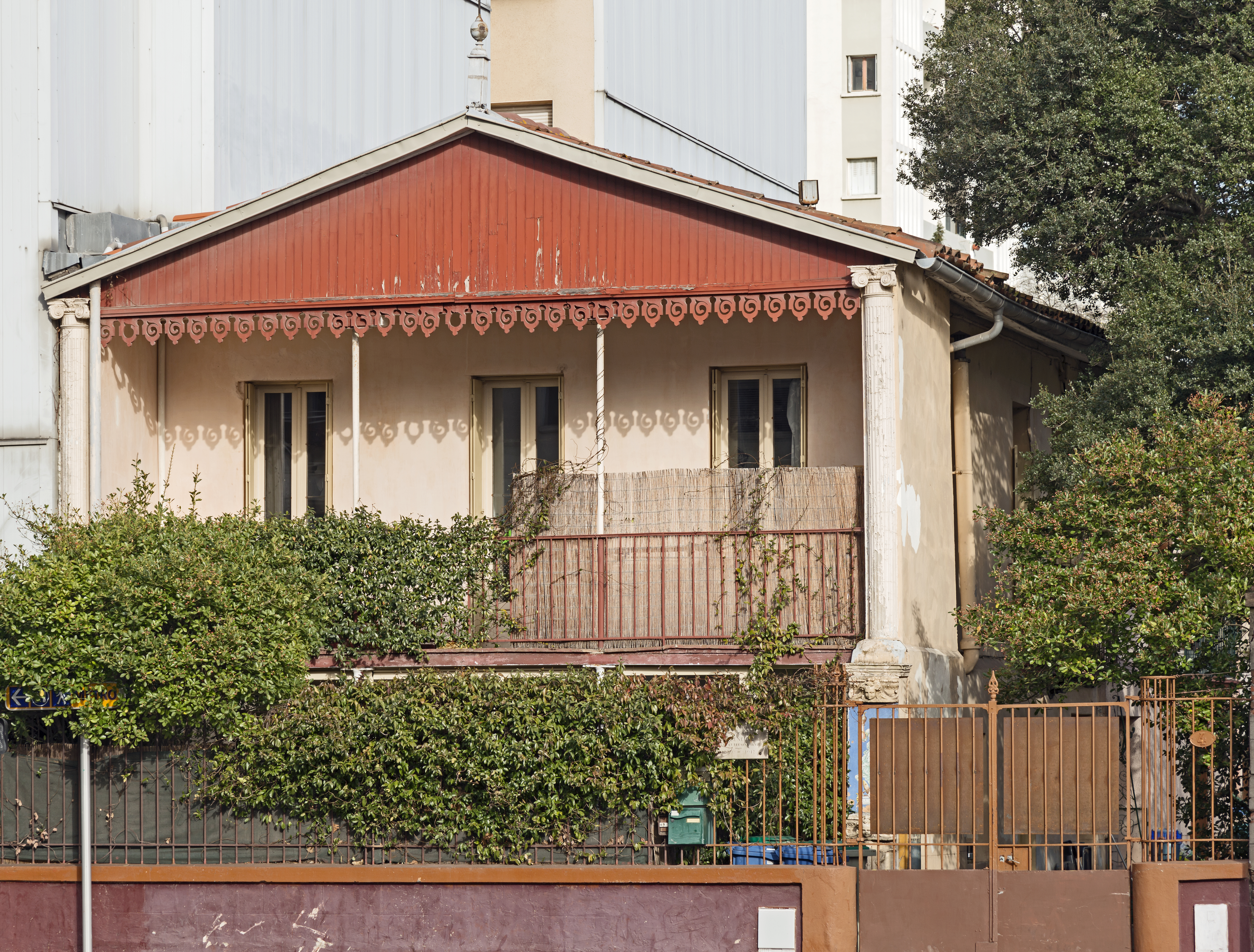 Facade of the " Villa Gabès " in Toulouse